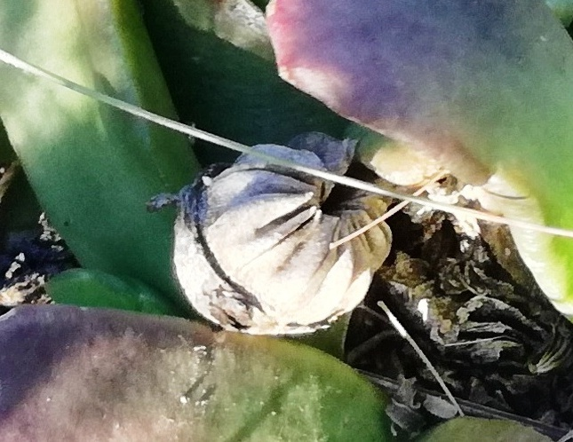 Detail of domed seed capsule. Glottiphyllum depressum - Bonnievale